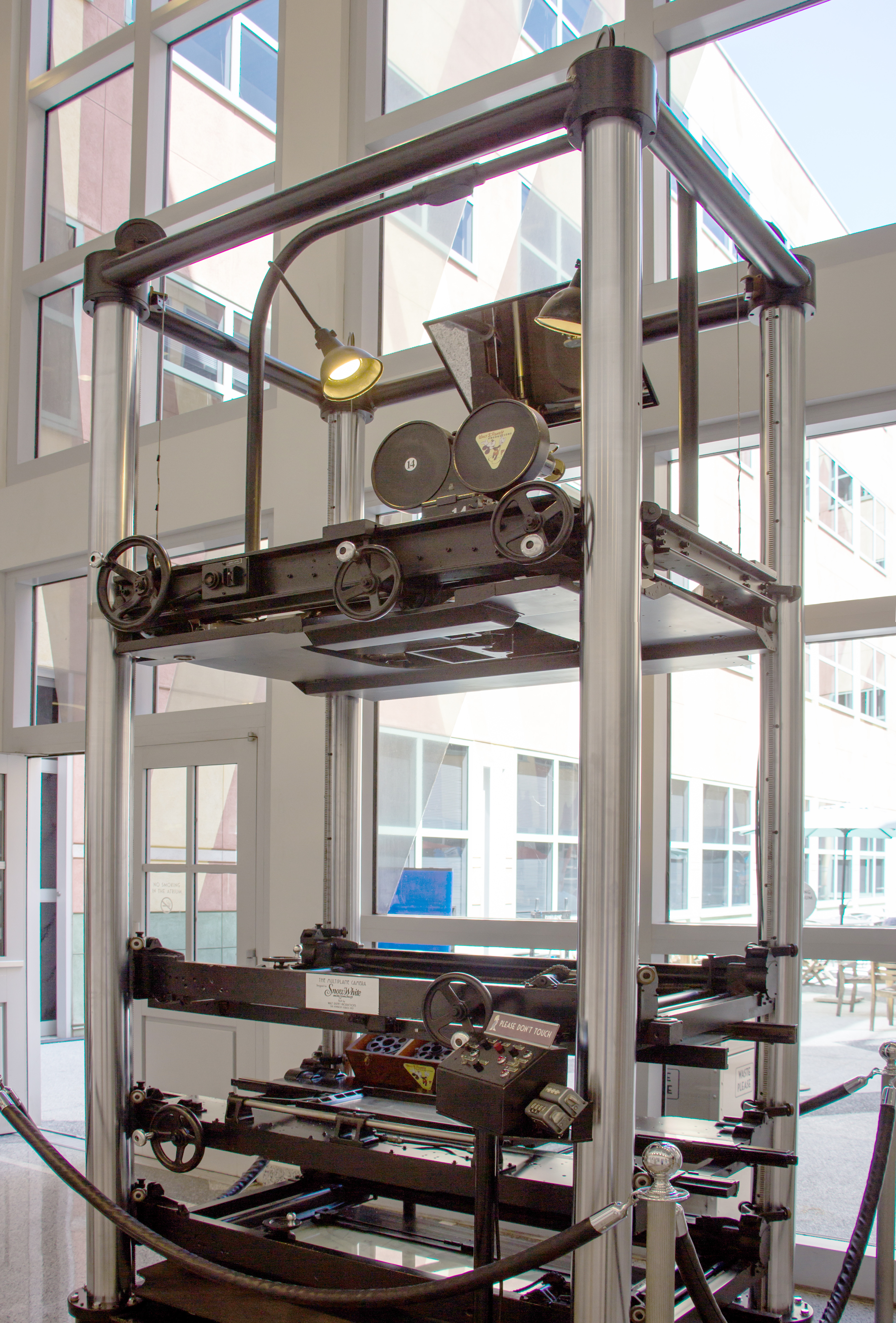 A multiplane camera built in 1937 for Walt Disney's first animated feature film, Snow White and the Seven Dwarfs.